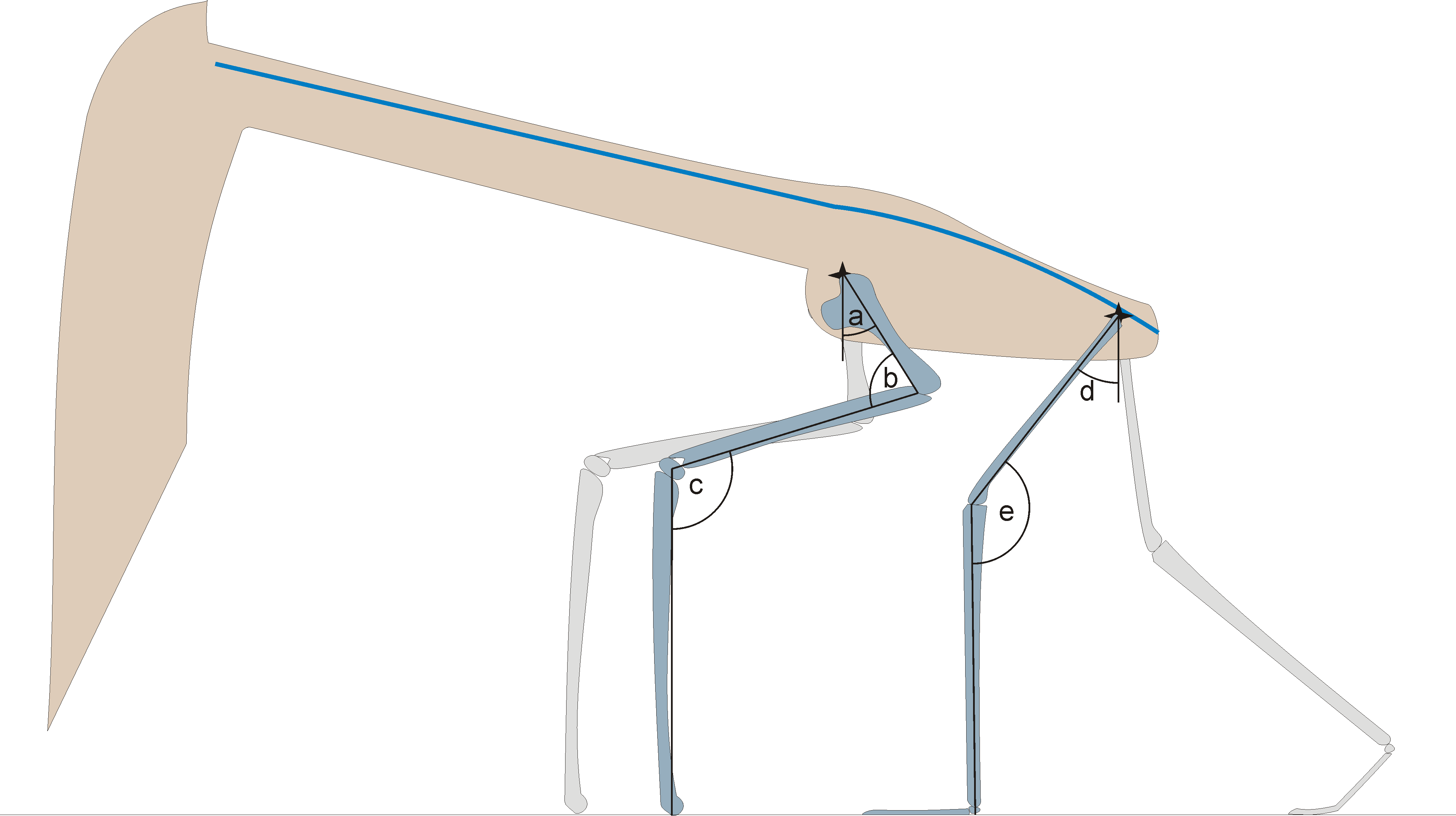 Reconstructed feeding posture of an azhdarchid with sagittally aligned limbs. The blue line indicates the dorsal and cervical column; note how the long jaws require little flexion of the forelimb to be lowered to the ground and how only moderate flexion of the anterior cervical series would lower the jaws fully. Letters denote approximate angles used in this reconstruction; a, 30°; b, 80°; c, 120°; d; 35°; e, 145°.